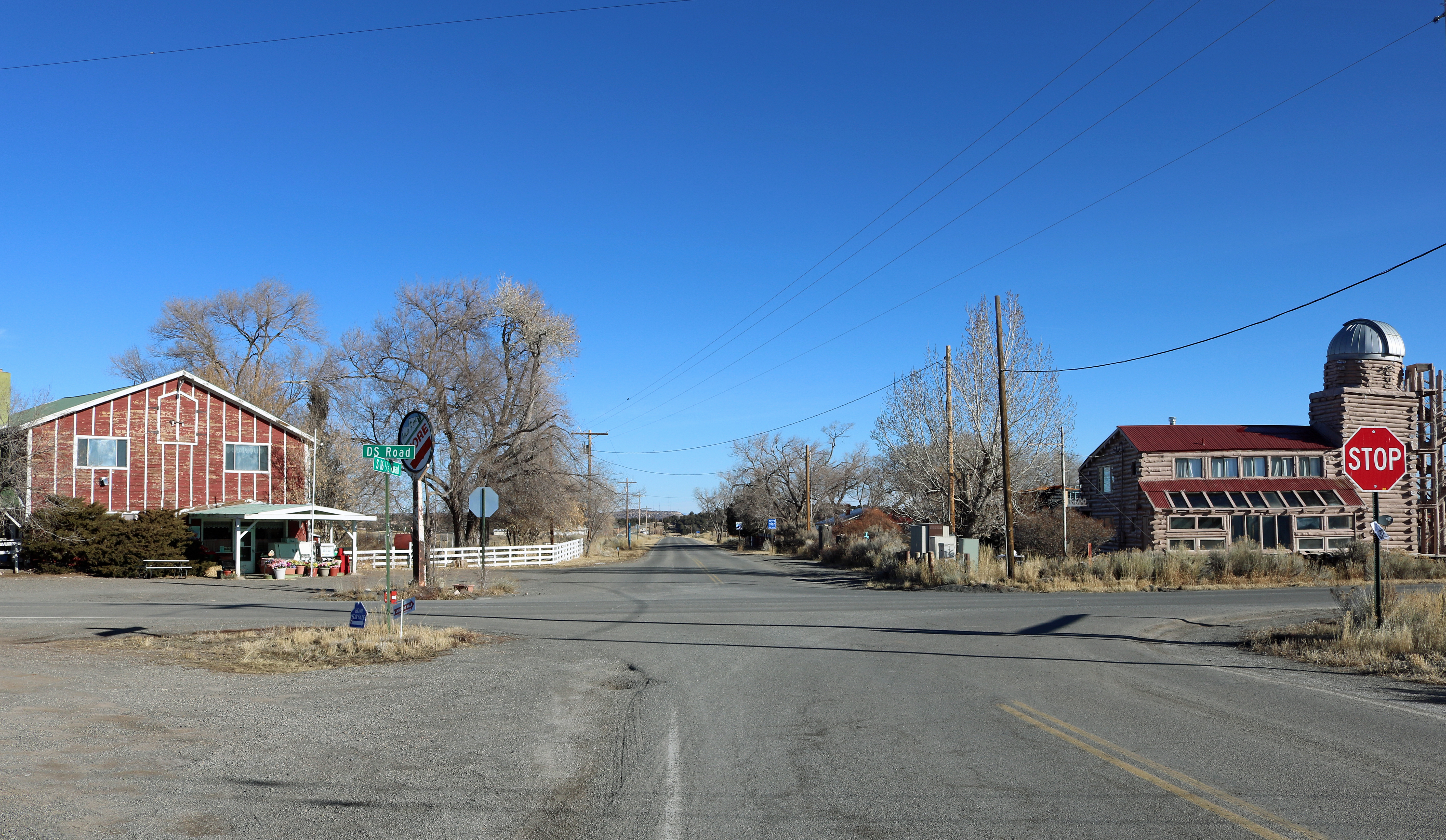 Glade Park, Colorado. The view is looking towards the north at the intersection of D S Road and 16.5 S Road, the main intersection in the community.